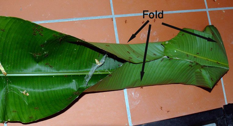 In Malaysia, fire ants build nests in leaves by folding the leaf downwards over itself, with the queen inside, and then excreting a sticky white substance with which they seal the fold and make a protective cover for the eggs.